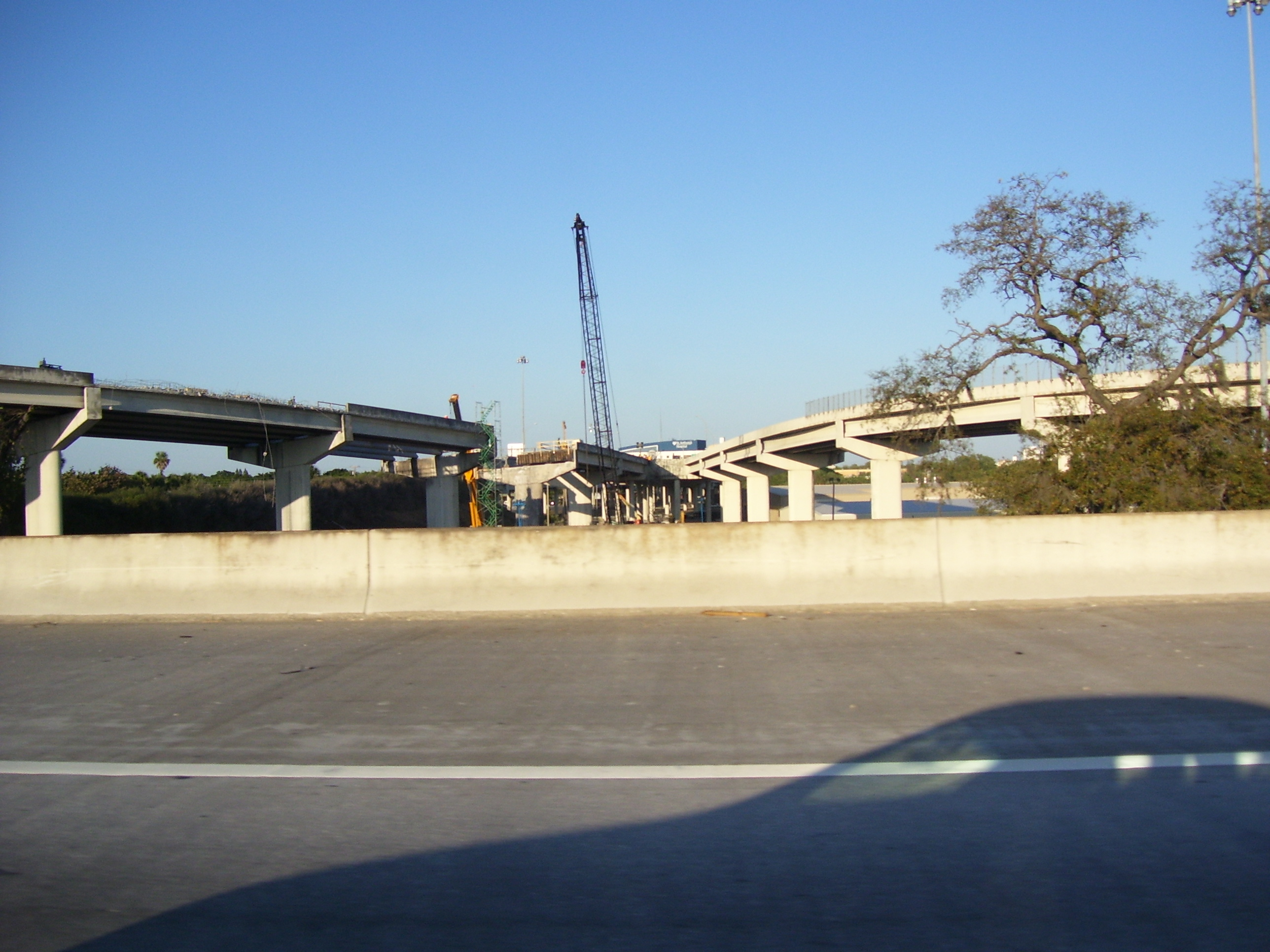 The Interstate 375 flyover (In St. Pete, FL) during emergency reconstruction following a tanker accident.